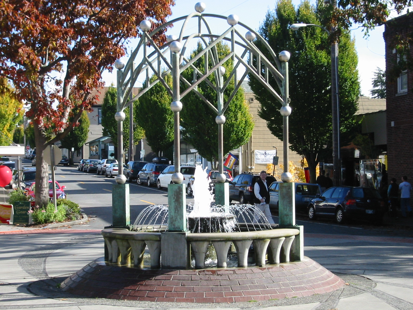 Edmonds Fountain and traffic circle